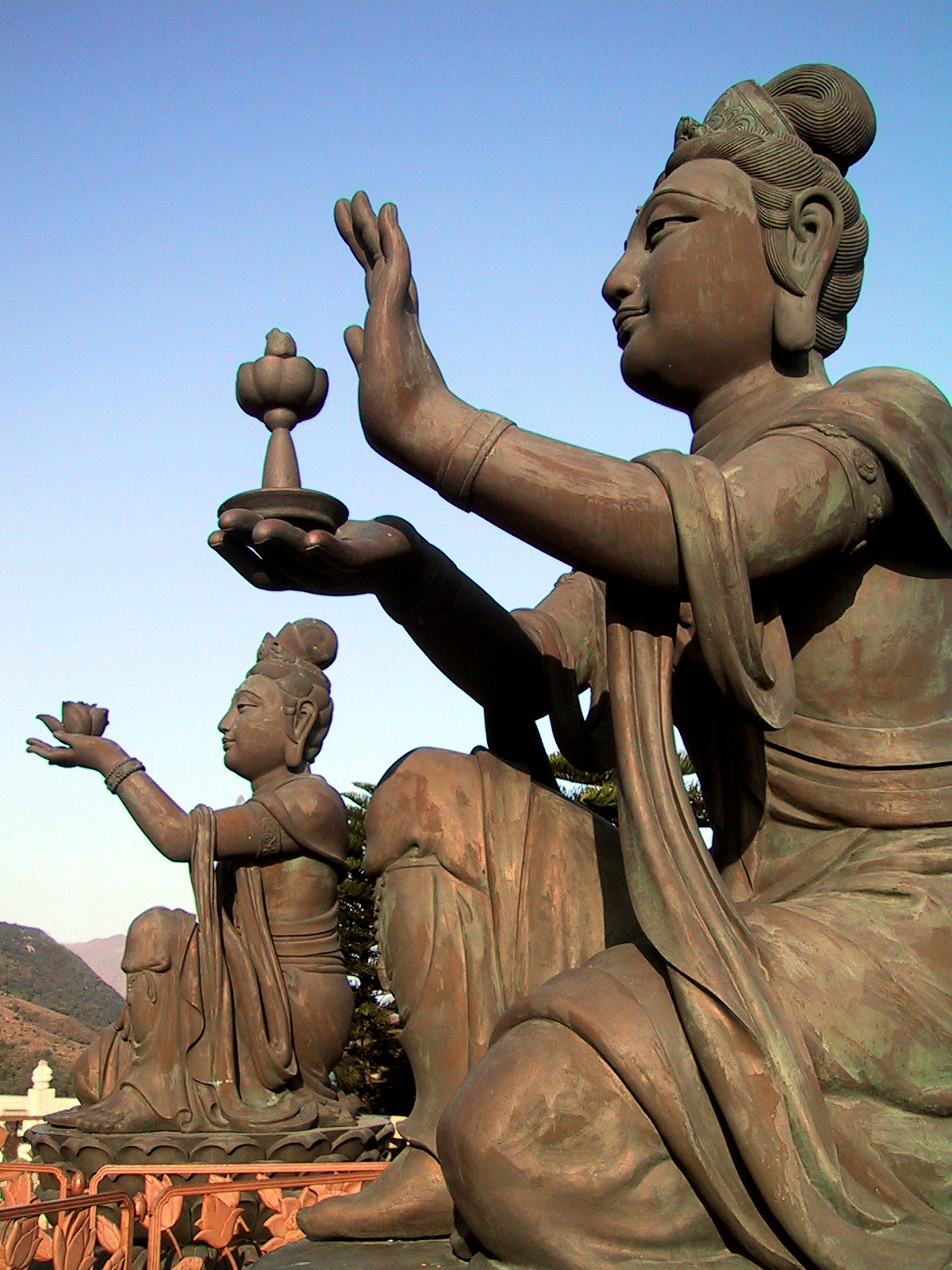 Buddhistic Statues praising the big Buddha (Tian Tan Buddha) on Lantau (Hong Kong).